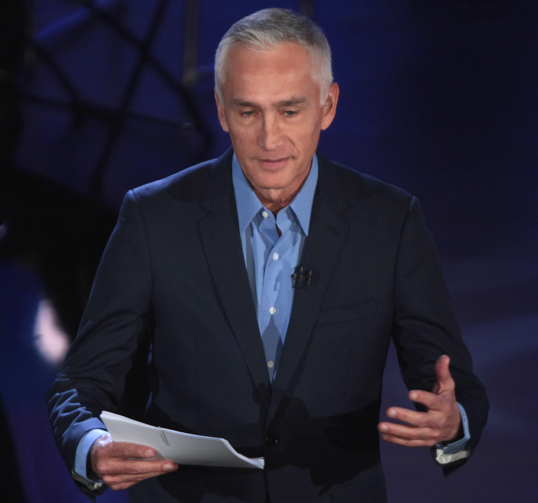 Jorge Ramos speaking at the Brown & Black Presidential Forum at Sheslow Auditorium at Drake University in Des Moines, Iowa.